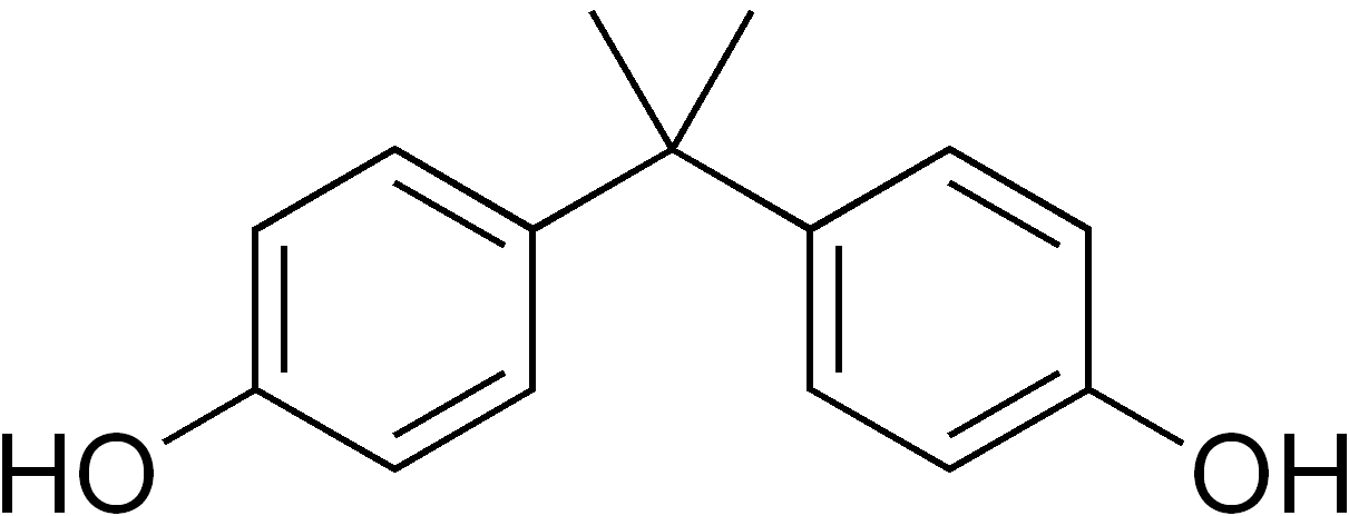 chemical structure of bisphenol A